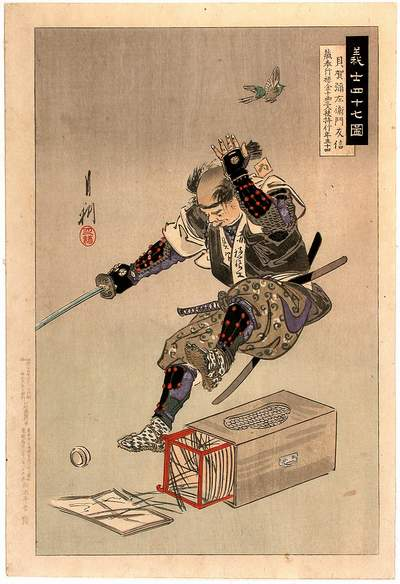 Ronin are masterless samurai. Chushingura is the true story of 47 samurai who became masterless in 1701, after their lord had been forced to commit ritual suicide (seppuku) for assaulting a court official who had insulted him. They avenged him by killing the court official after patiently planning for over a year. They were themselves then forced to commit seppuku.